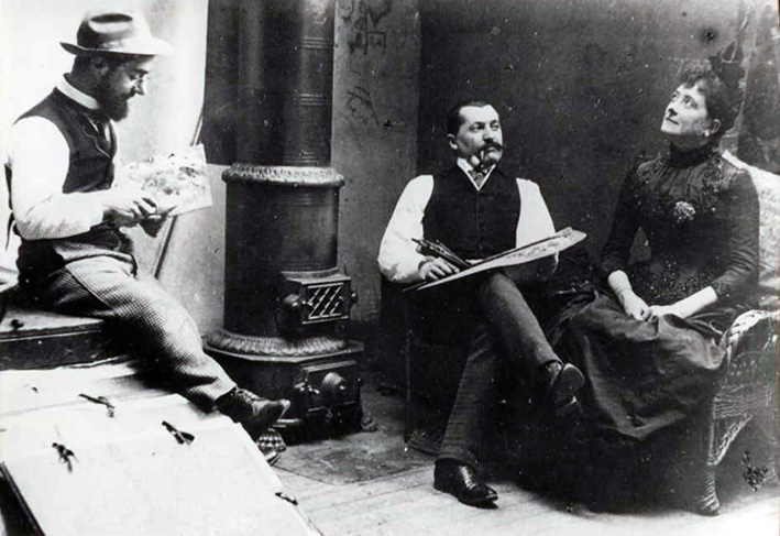 Henri Toulouse-Latrec (left) and Maxime Dethomas (centre) with unknown model in Lautrec's studio c. 1890